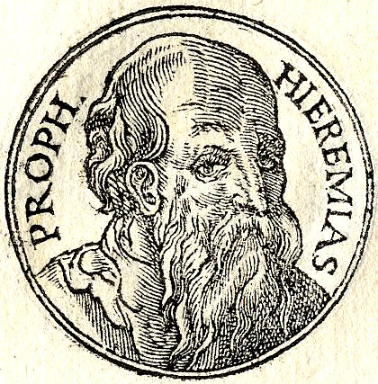 Jeremias was one of the prophets of the Hebrew Bible.